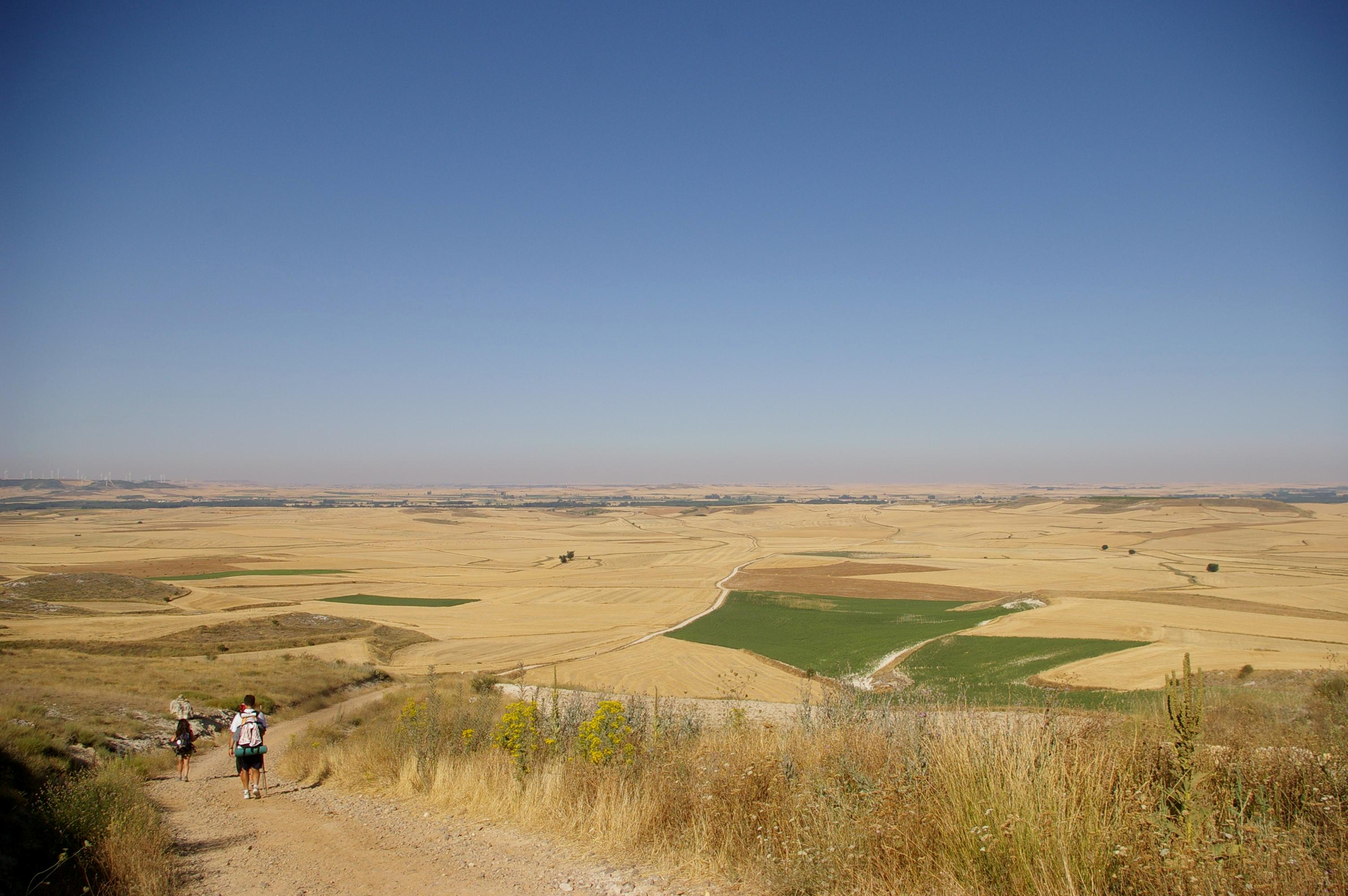 Pilgrims on the Camino de Santiago east of Castrojeriz, province of Burgos, Spain. Used on Pelgrimsroute_naar_Santiago_de_Compostella.